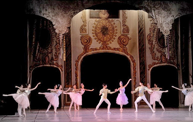 Ballet Nacional de Cuba performing at the Great Theatre of Havana